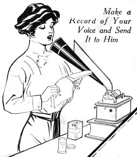 Home recording on a phonograph cylinder, from 1913 ad